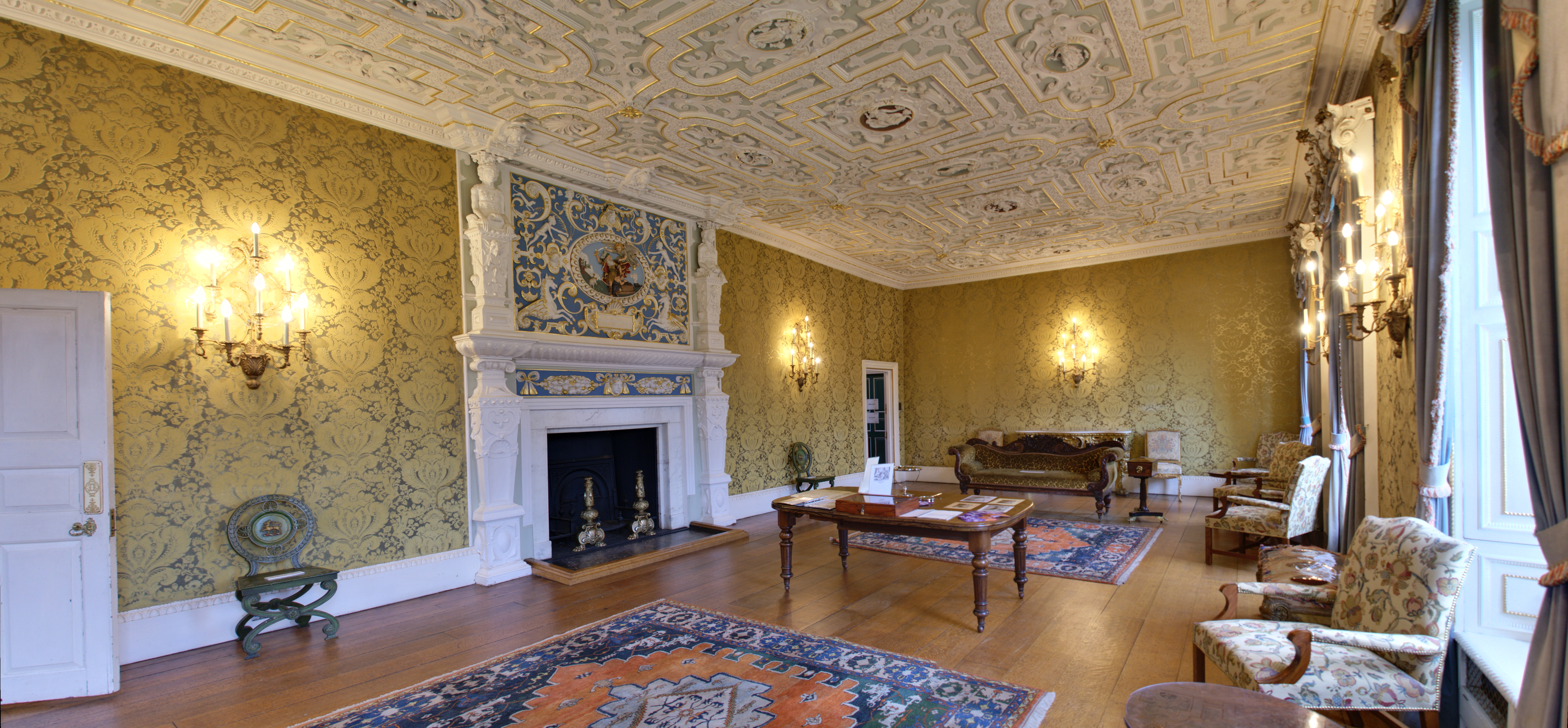 The Jacobean State Drawing Room of Boston Manor House. London. Building currently owned by the London Borough of Hounslow. Boston Manor Road, Brentford, TW8 9JX. United Kingdom. — Tel: +44 020 8583 4463